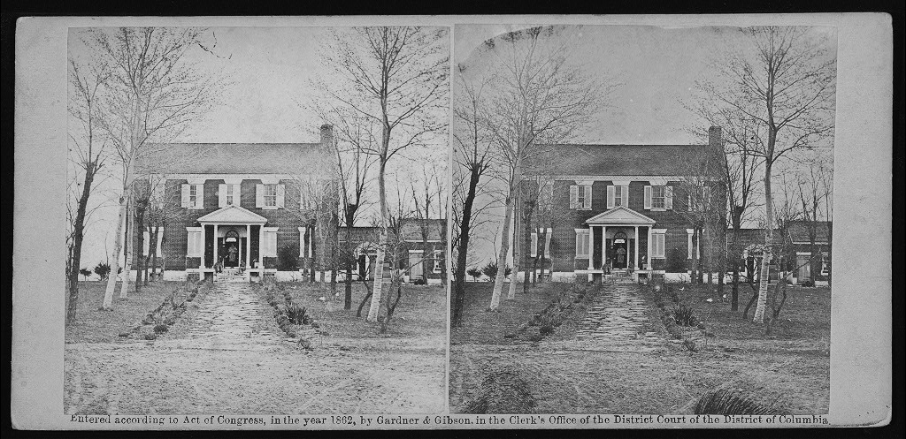 Beauregard's headquarters in Manassas. Stereograph taken by George N. Barnard between 1861 and 1865